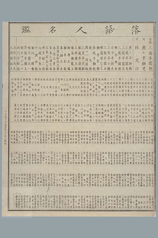 The list of Japanese storytellers "Rakugoka" in Meiji era (1880's-90's)